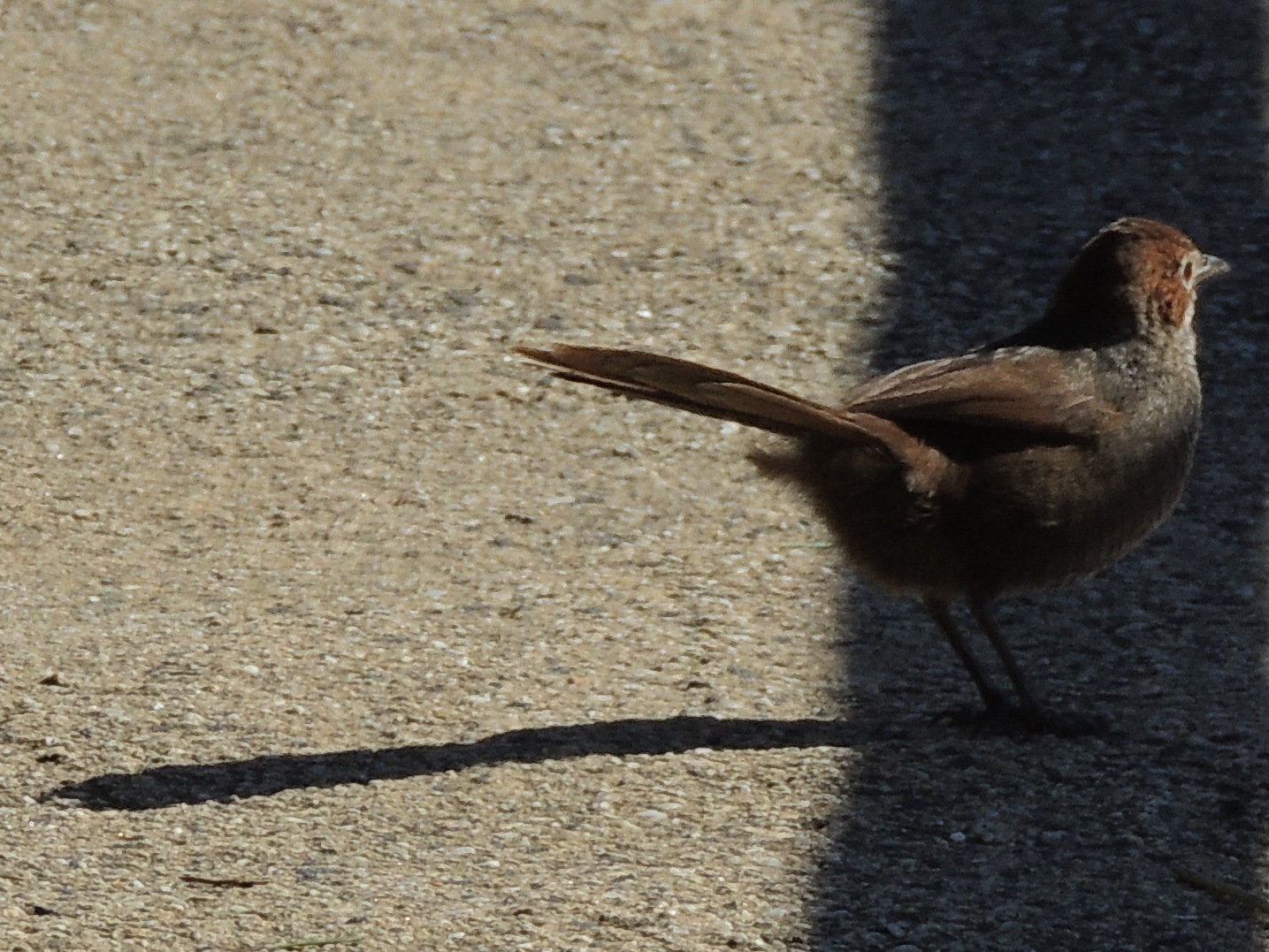 Otways rufous bristlebird (Dasyornis broadbenti caryochrous), The Arch, Port Campbell National Park, Victoria